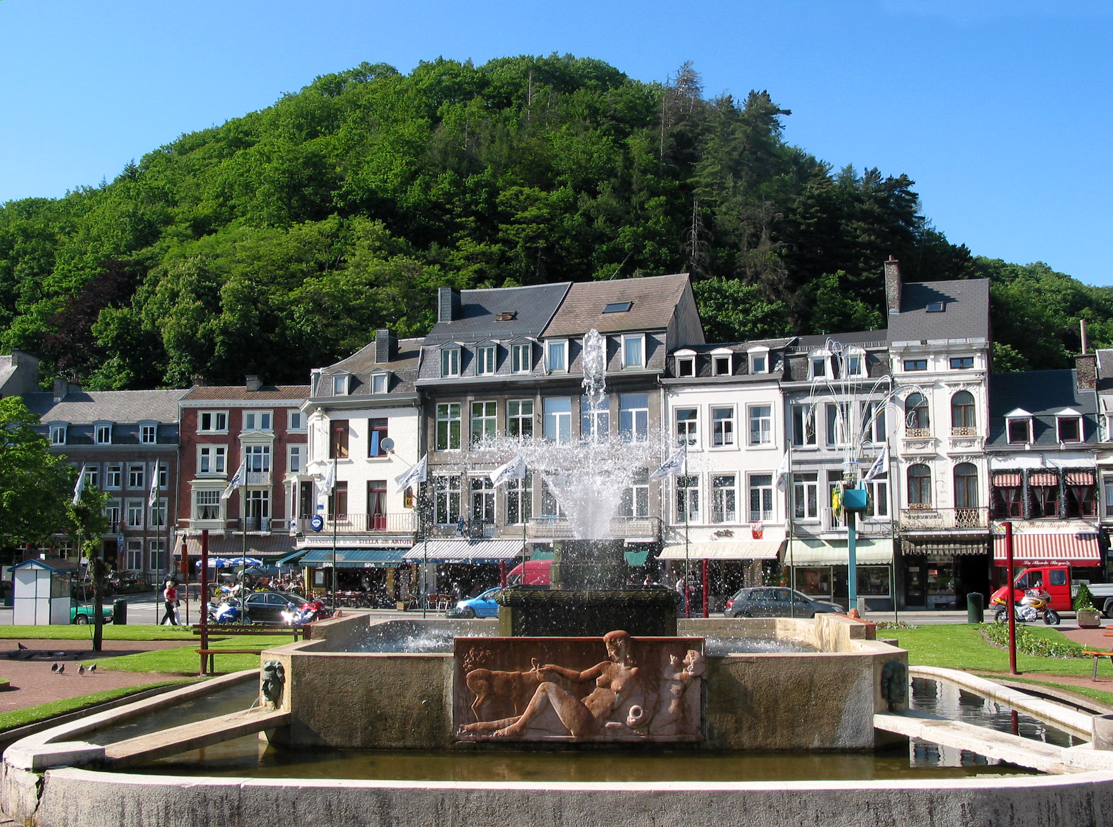 Spa, Belgium, the fountain of the Casino gardens.